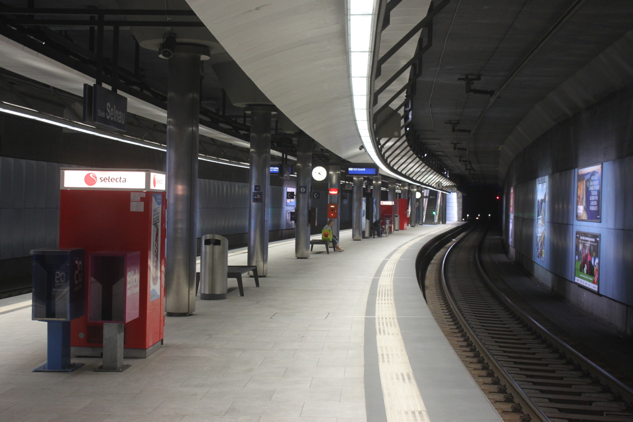 Zürich Selnau train station.